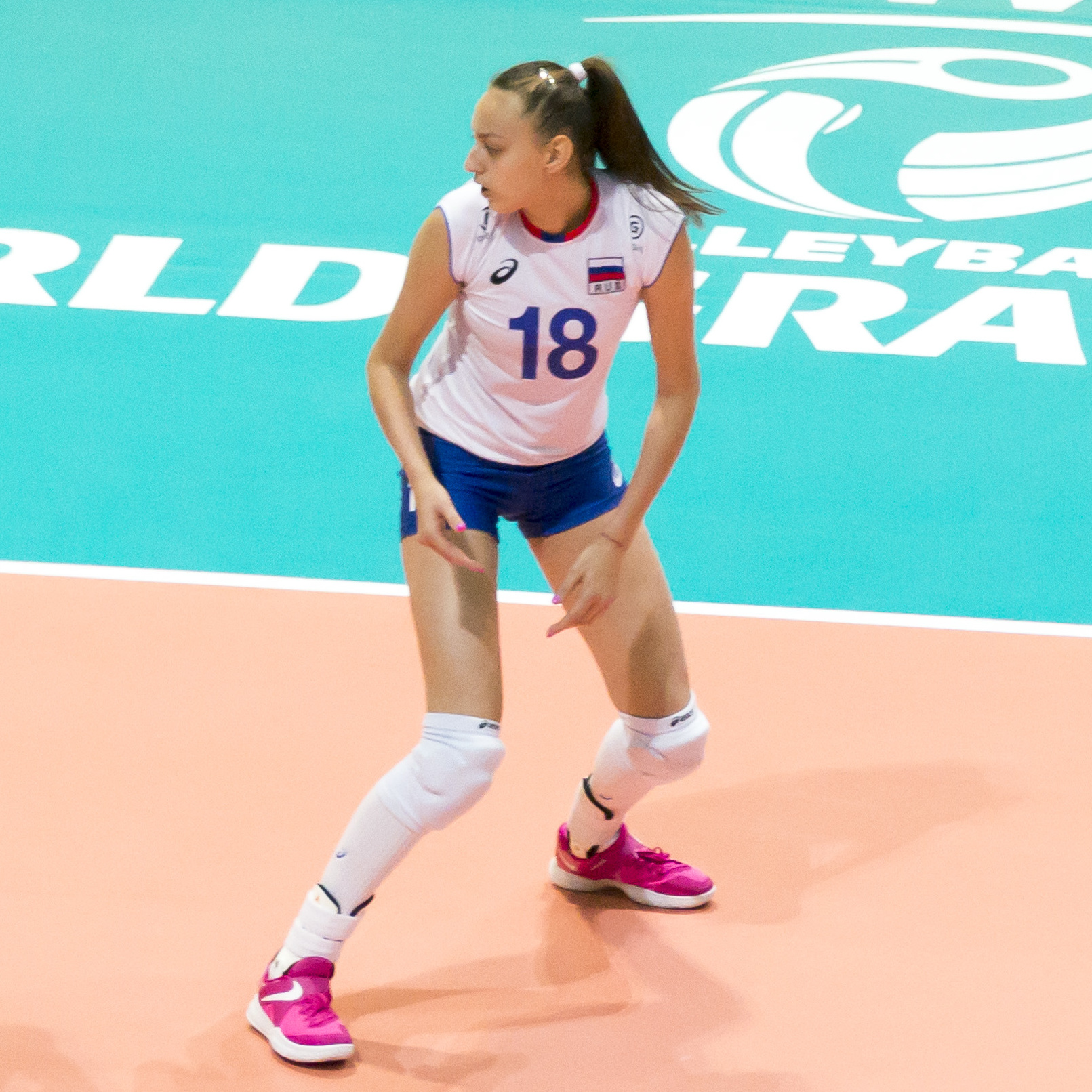 2. MARIIA FROLOVA 12. ALLA GALKINA 18. KSENIIA PARUBETS 21. EKATERINA EFIMOVA